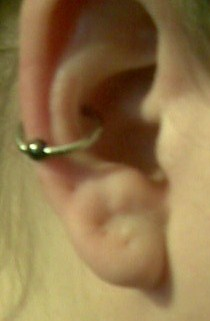 Conch piercing with captive-bead ring.